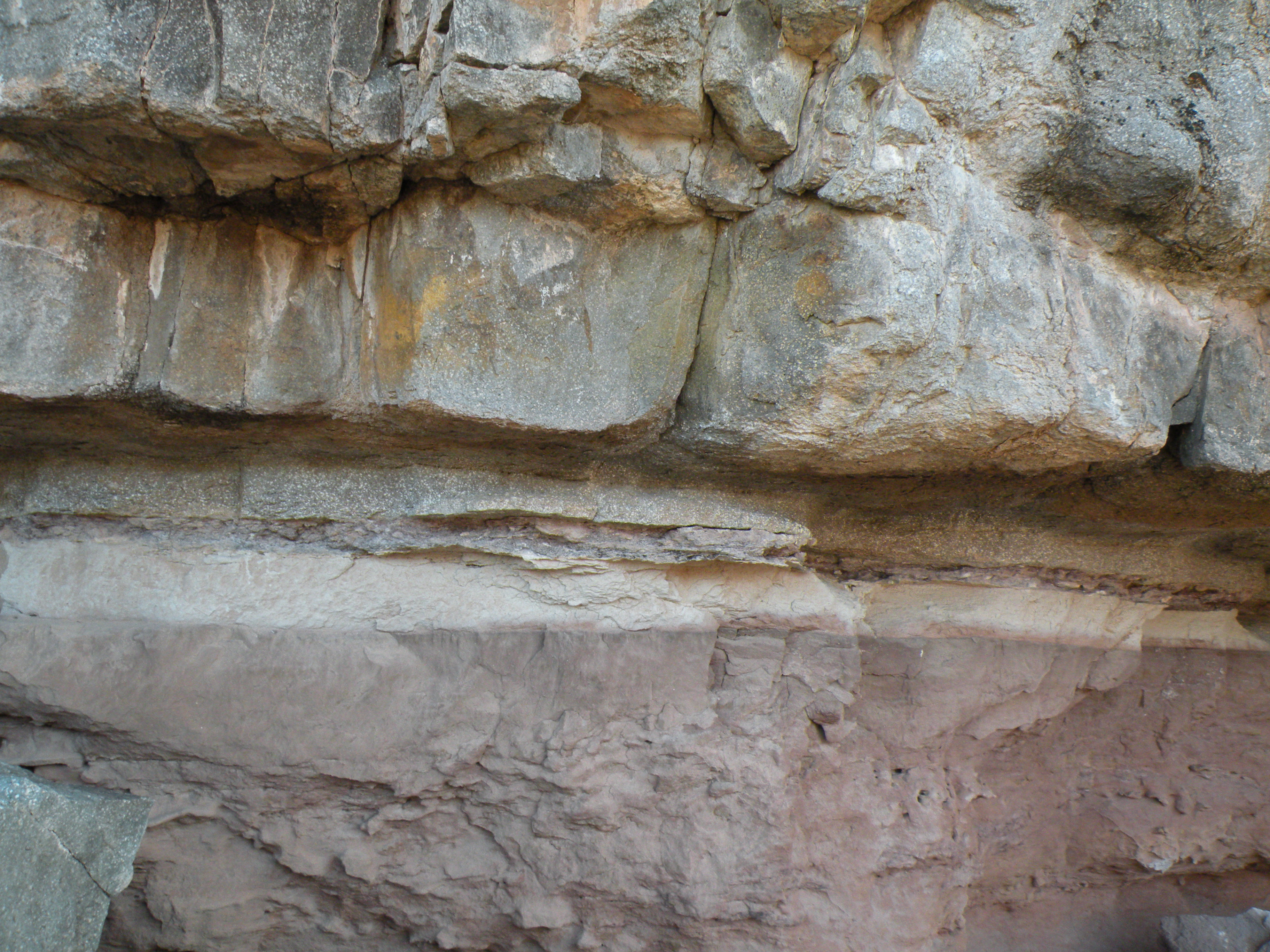 An aureole (site of contact metamorphism) between an igneous intrusion (above) and the surrounding sedimentary rock (below). The igneous rock is an outlying porphyritic granodiorite sill attached to the Henry Mountains laccolith, and the sedimentary rock is siltstone. The image shows approximately 3 vertical meters of rock. Located in the Henry Mountains, Utah, USA.